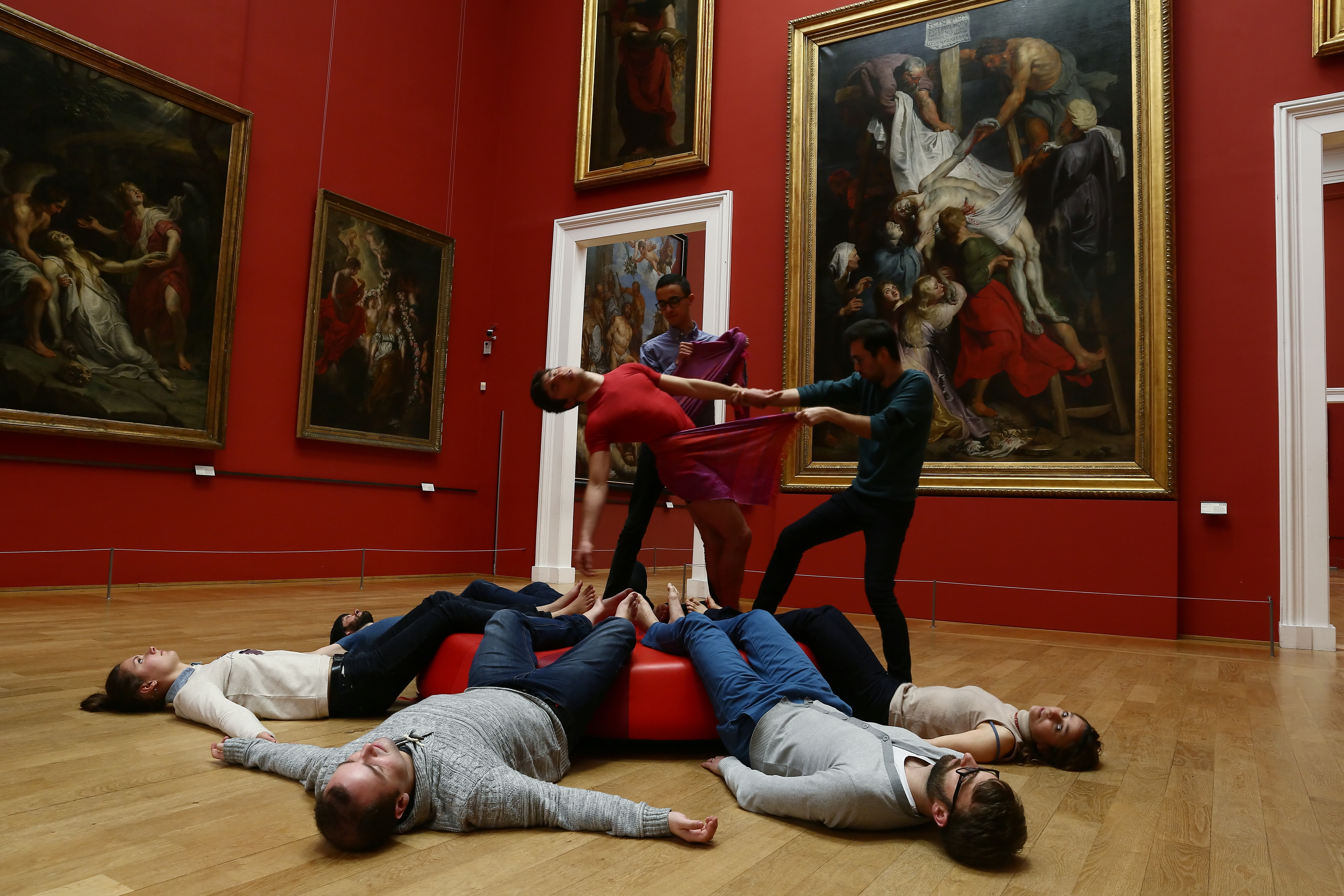 During the event entitled "Instameet", the visitors imitate the scene in the painting of Rubens, "La Descente de Croix".